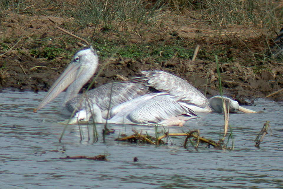 Pink-backed Pelicans Pelecanus rufescens, Queen Elizabeth National Park, Uganda.